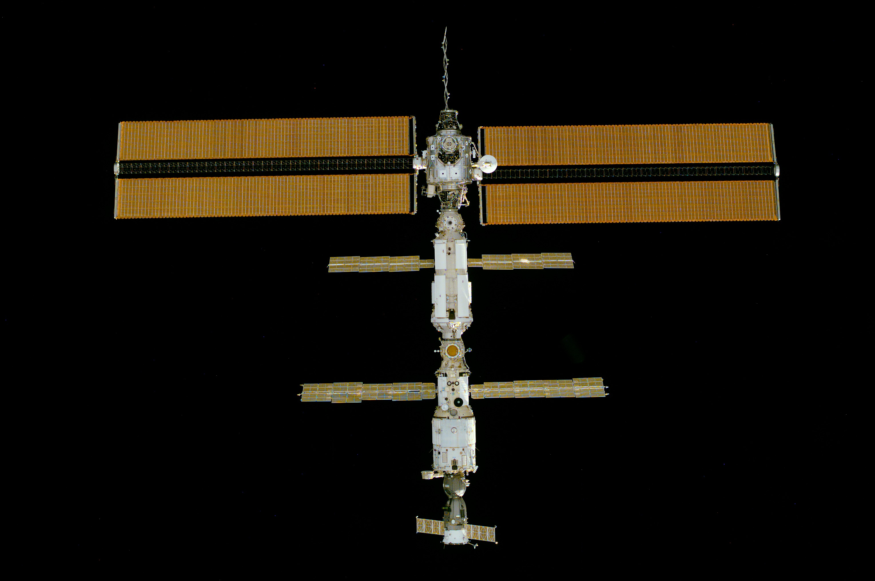 International Space Station an 9 December 2000 after installation of the P6 Truss by STS-97